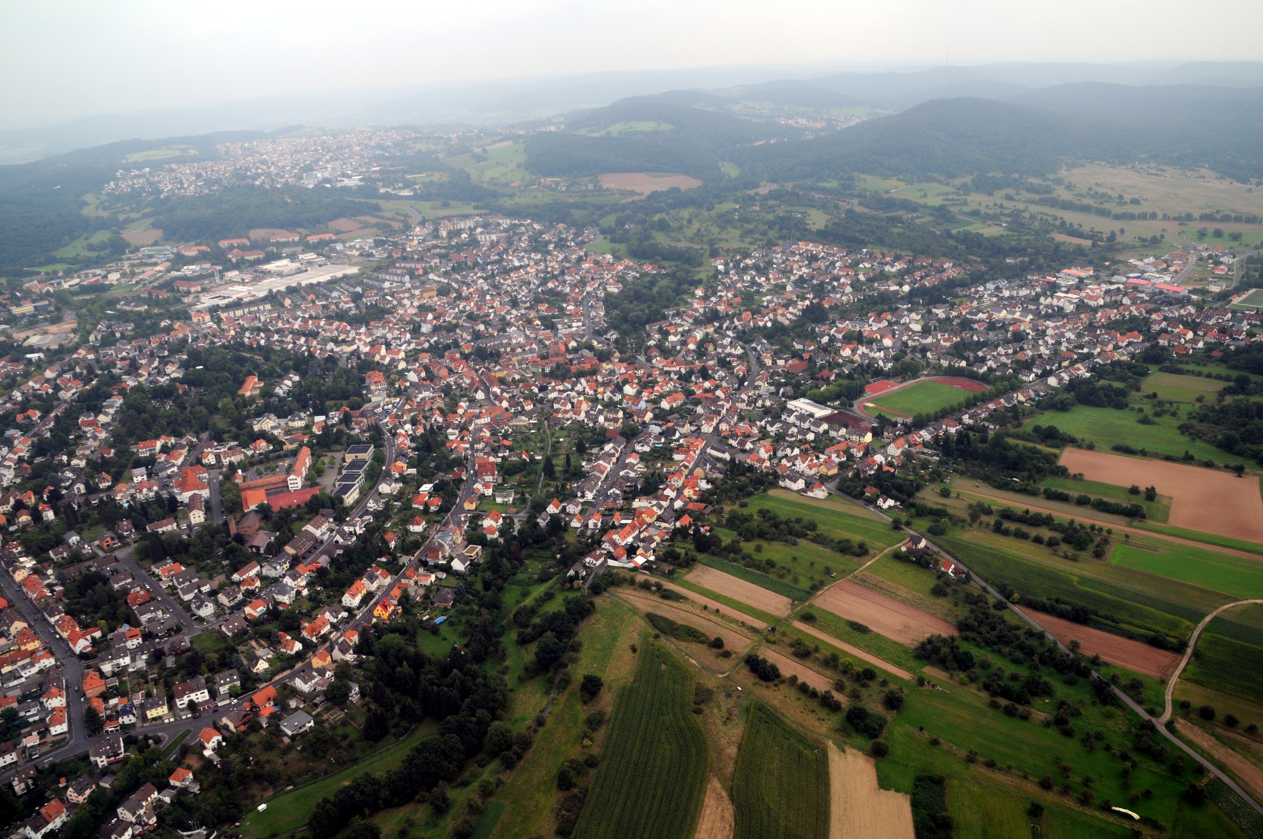 Schweinheim (Aschaffenburg), Bavaria, Germany, aerial photograph